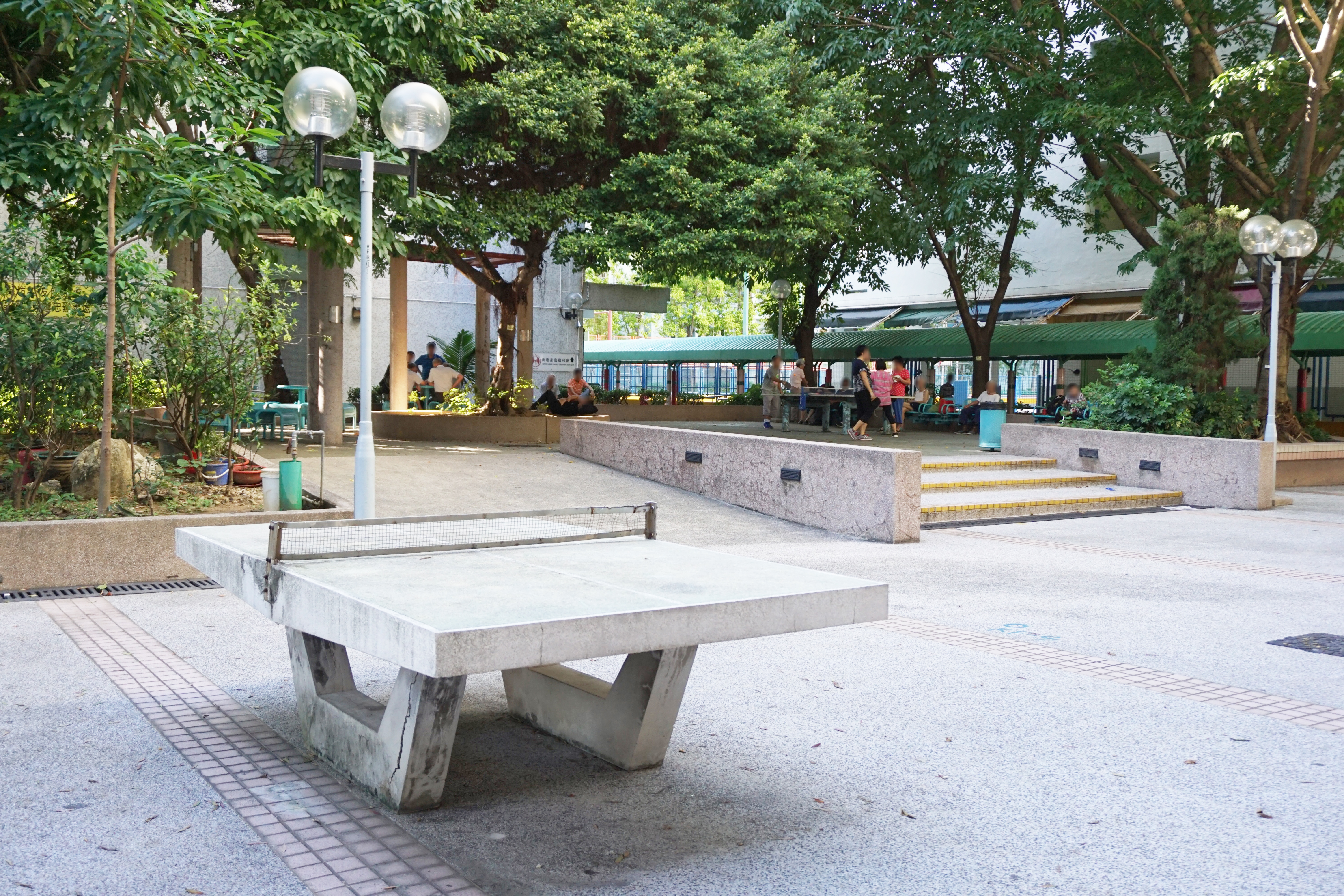 Kwai Fong Estate in Kwai Chung, Hong Kong.